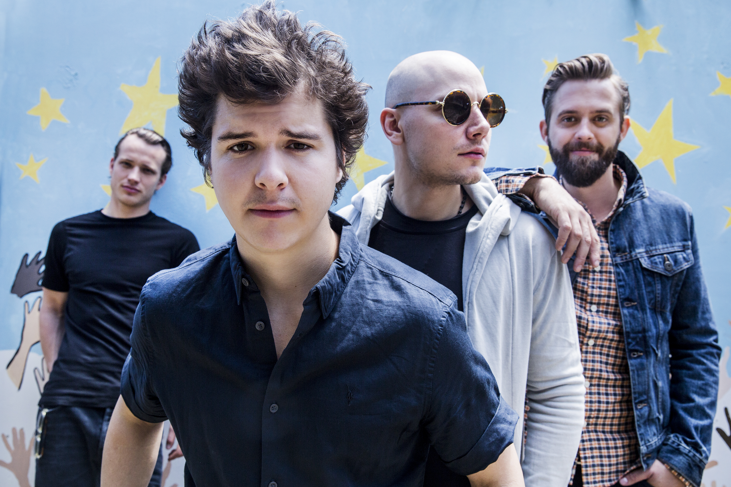 Press image of Lukas Graham obtained from Warner Bros. Records.